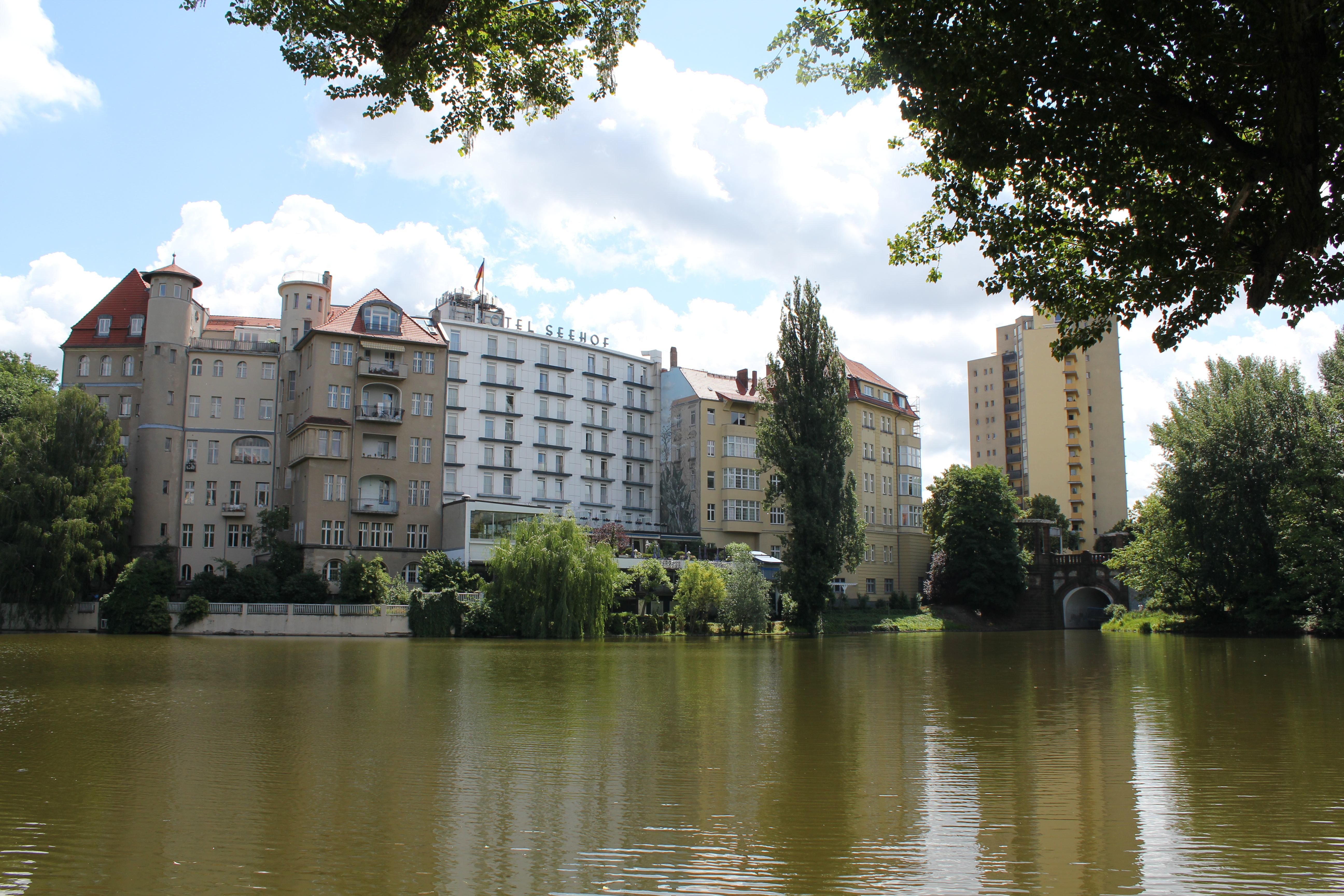 Berlin Lietzensee in summer